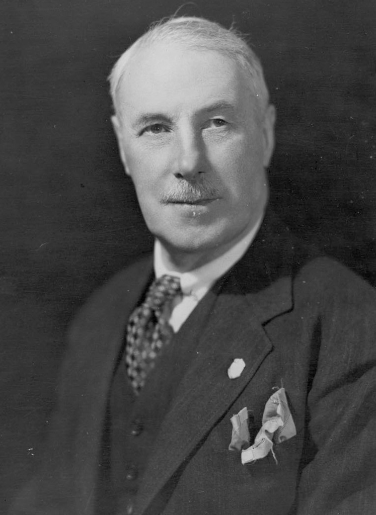 George Pearkes